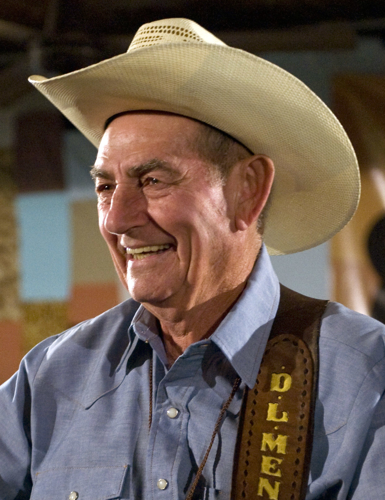 D.L. Menard playing at the 2008 Black Pot Festival in Wikipedia:Acadian Village in Wikipedia:Lafayette, Louisiana.